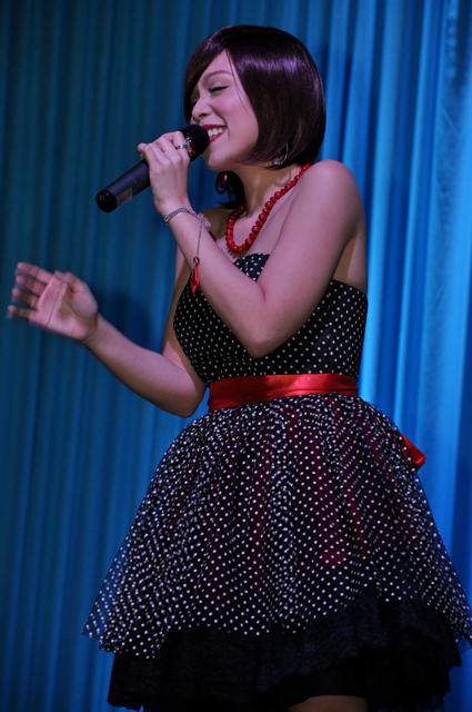 Nina performing at Ayala Center Cebu. She performed: "Sunshine" (originally by Gabrielle) "I Don't Want to Miss a Thing" (originally by Aerosmith) "Love Moves in Mysterious Ways" (originally by Julia Fordham) "Someday" She also promoted her upcoming 2011 album, giving the audience few information on the album's sound and concept.